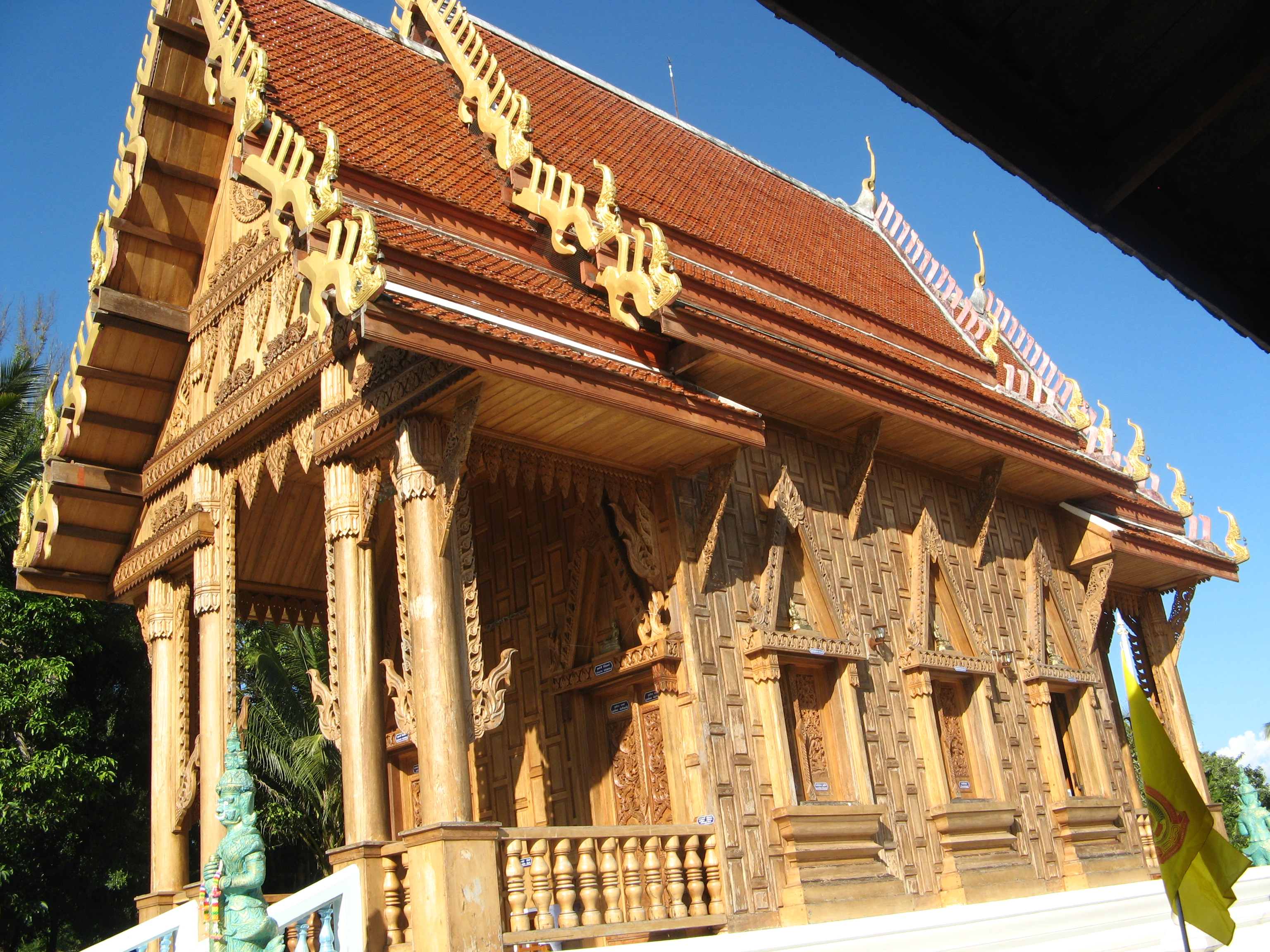 Wat Nong Luong